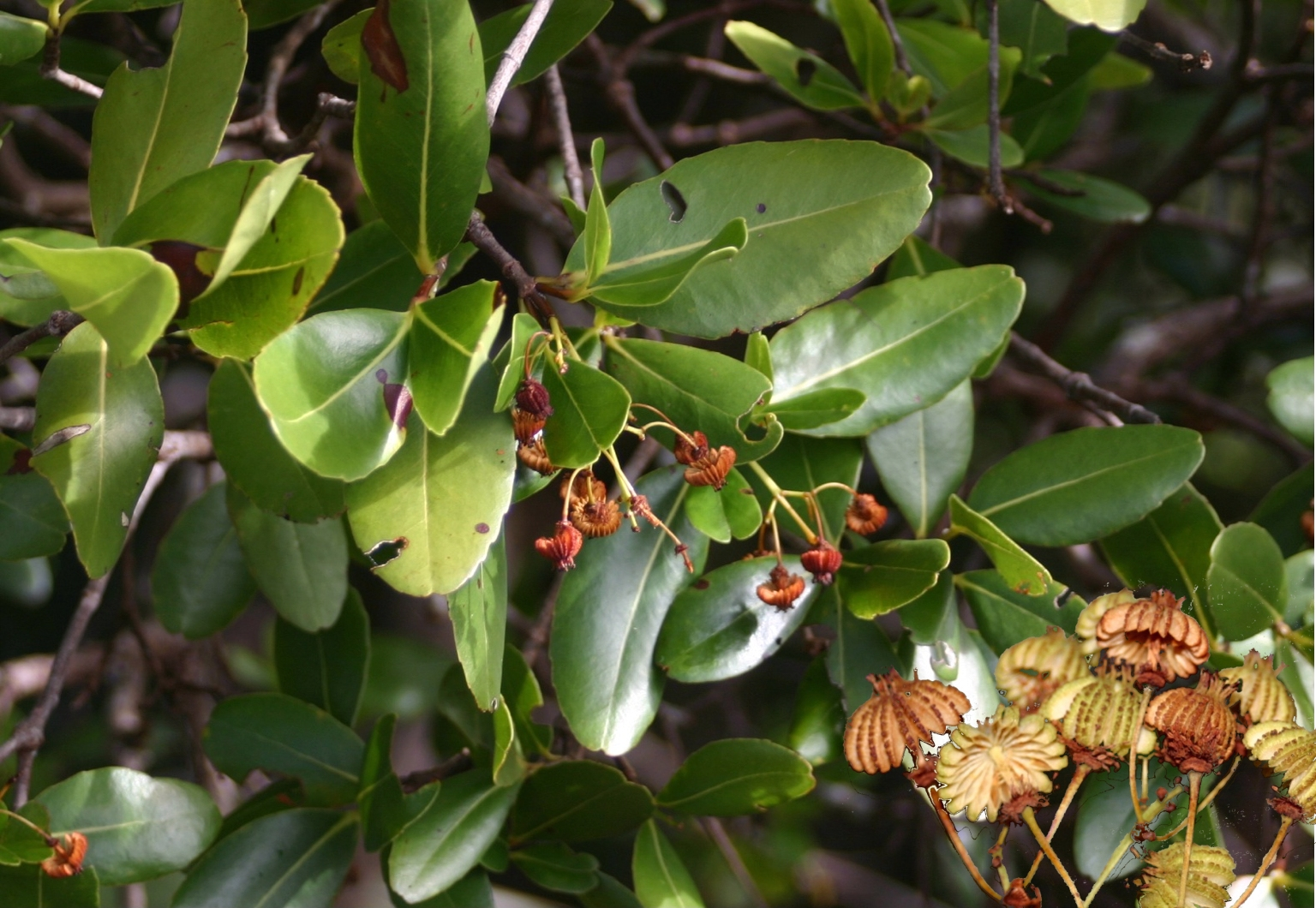 Jellyfish tree with fruits. Photograped by Brocken Inaglory at Mahe Seychelles